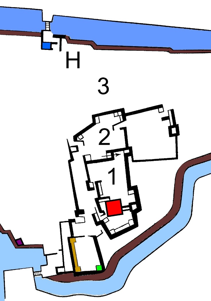 Layout of Fukuoka Castle center part